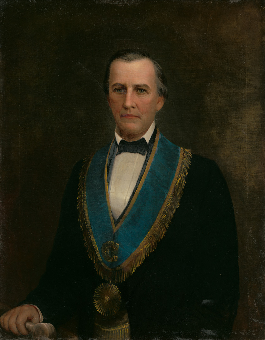 Portrait of Archibald Yell in Masonic Grand Master of Tennessee regalia.